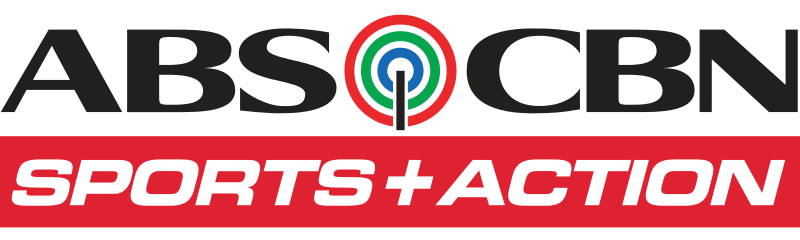 Digitally edited Logo of ABS-CBN Sports and Action on Master Editor